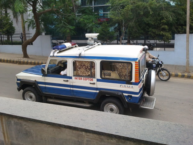 Traffic Speed Interceptor - Vehicles with speed camera used by Bangalore Police, India Photo taken near Electronic City, Bangalore